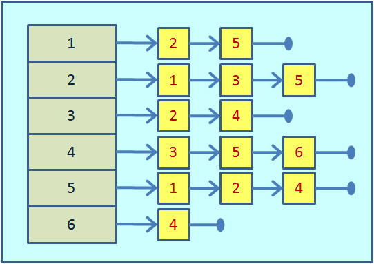 Lista de adjacências